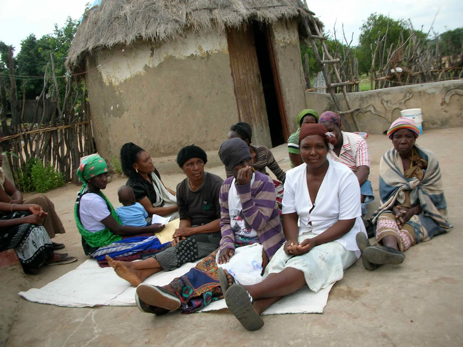 Microfinance meeting (picture 1 of 2). From the GiveWell visit to NGO The Small Enterprise Foundation in Tzaneen, South Africa. February 2010. More information.